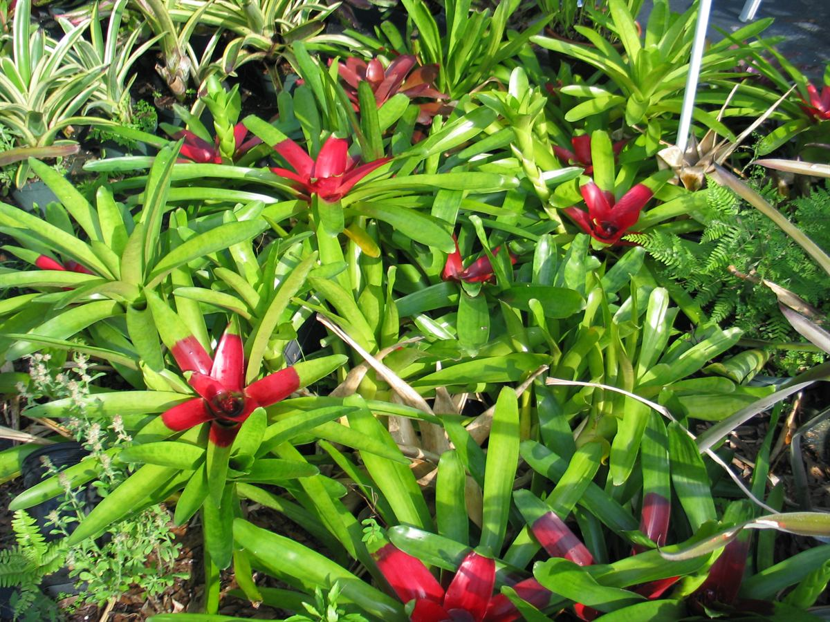 Neoregelia macwilliamsii group